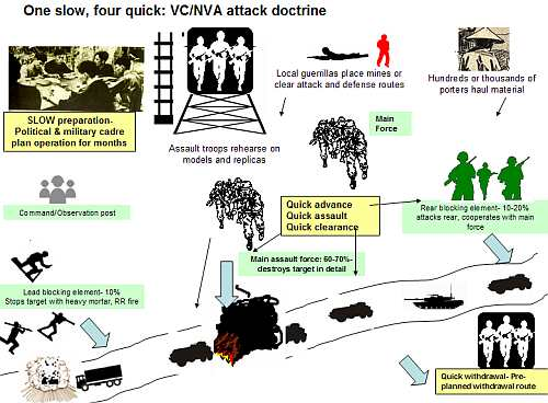 Viet cong/NVA/PAVN attack doctrine and example self-created diagram: simple Powerpoint boxes for the diagrams and inset photos from public domain US Govt Documents photo from public domain US Govt Documents - US Army, Command and General Staff College, Combined Arms Research Library, United States Army Center of Military History: Vietnam Studies, (DEPARTMENT OF THE ARMY, WASHINGTON, D. C., 1989), and Military clipart icons from US Army website- Fort Sill. All are public domain Since Powerpoint is used to type text and provide boxes,a rrows etc.- this laborious blurb should suffice for Microsoft: "Contains clipart from Microsoft Powerpoint- not for commercial use or resale, per Microsoft guidelines at Copyright, Microsoft Corporation. Include this notice with any reuse"